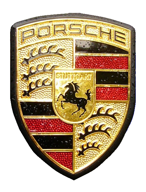 Porsche emblem at Porsche 911 Carrera.